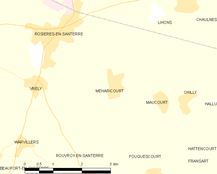 Map of French municipality Méharicourt